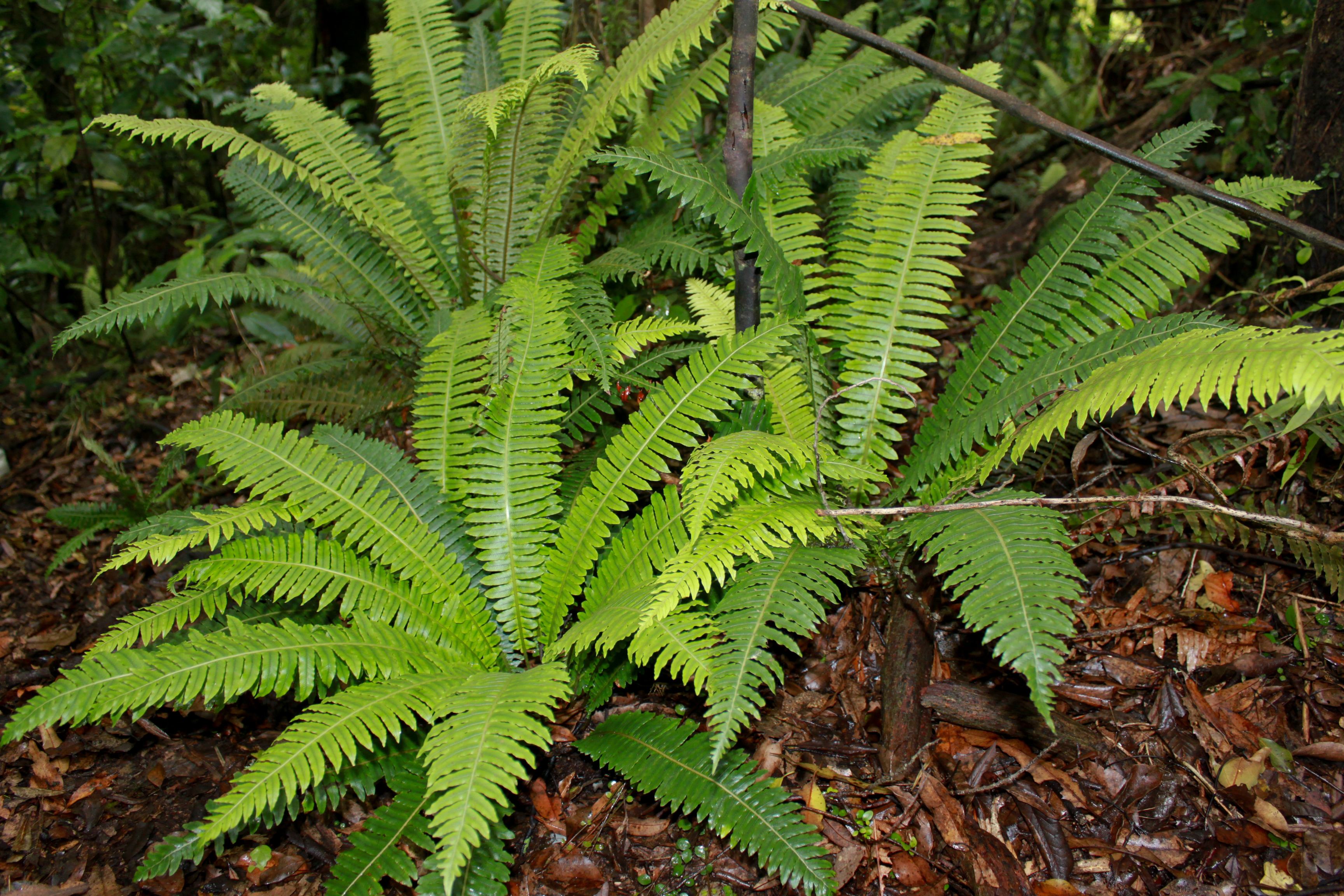 Crown fern